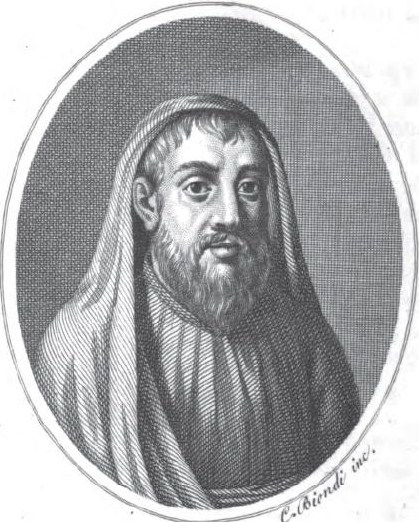 Philistion of Locri, Siceliote physician and writer on medicine